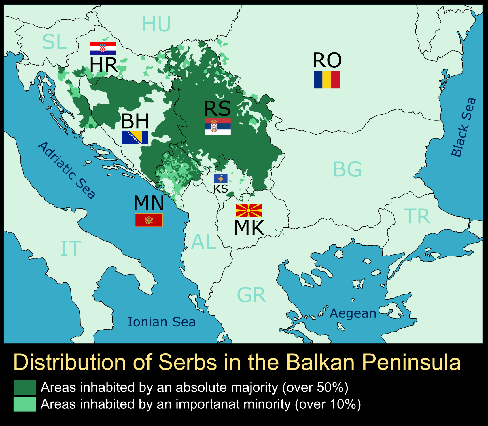 Distribution of Serbs in the Balkan PeninsulaRomână: Distribuţia sârbilor în Peninsula Balcanică